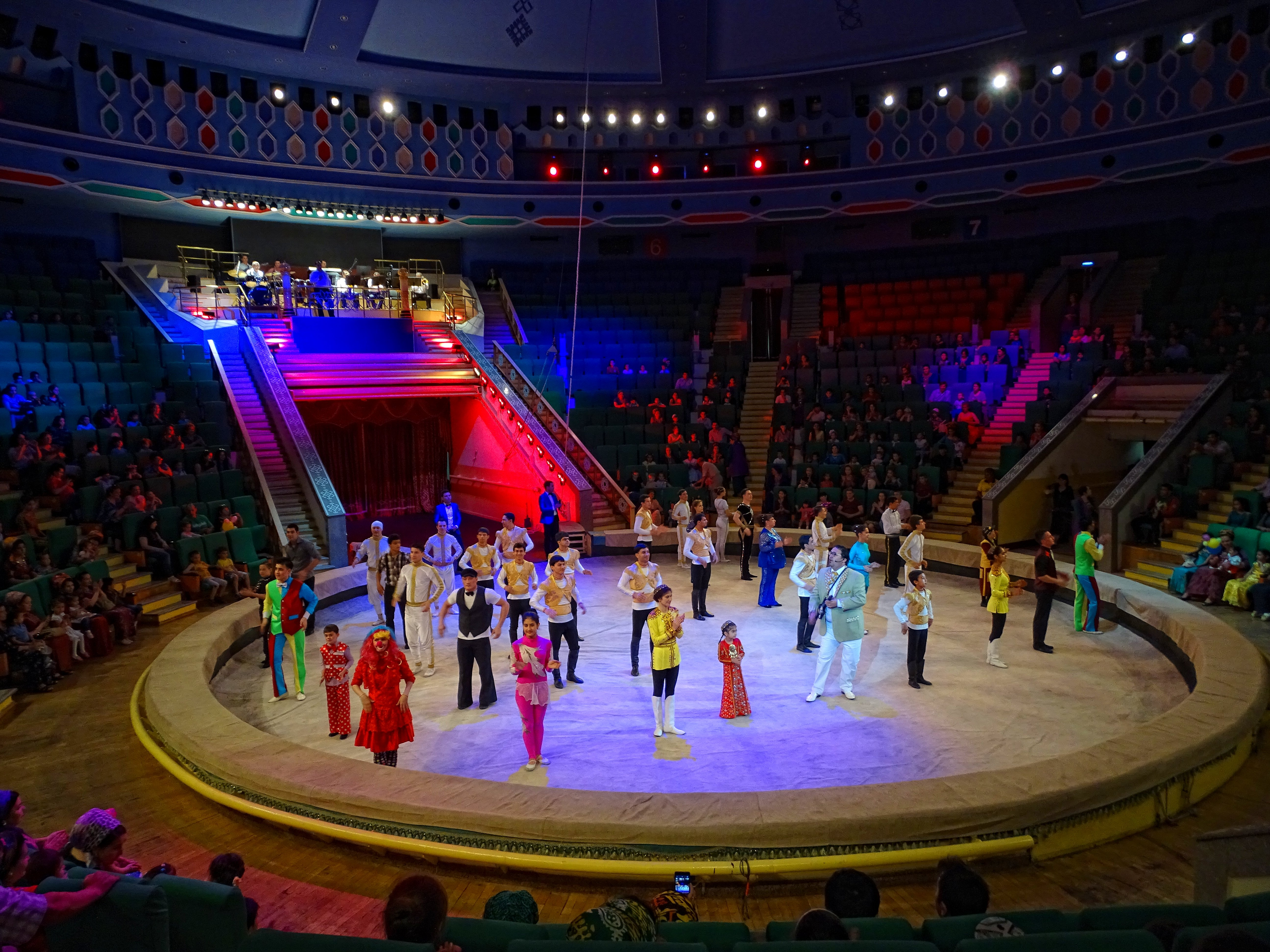 The interior of the Turkmen State Circus right at the beginning of a performance in May 2015. All the artists are presented.